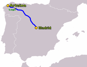 Map of the Spanish highway A6.